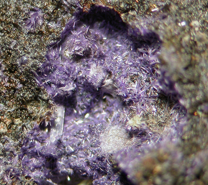 Elyite (Field of view 5 mm) Locality: Bleyberg zinc and lead smelter (slag locality), Plombières (Bleyberg), Plombières-Vieille Montagne District (Plombières-Altenberg), Verviers, Liège Province, Belgium